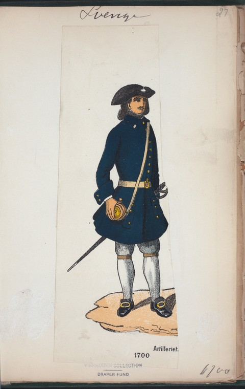 A.D. 1700 Gunner of the Royal Swedish Artillery